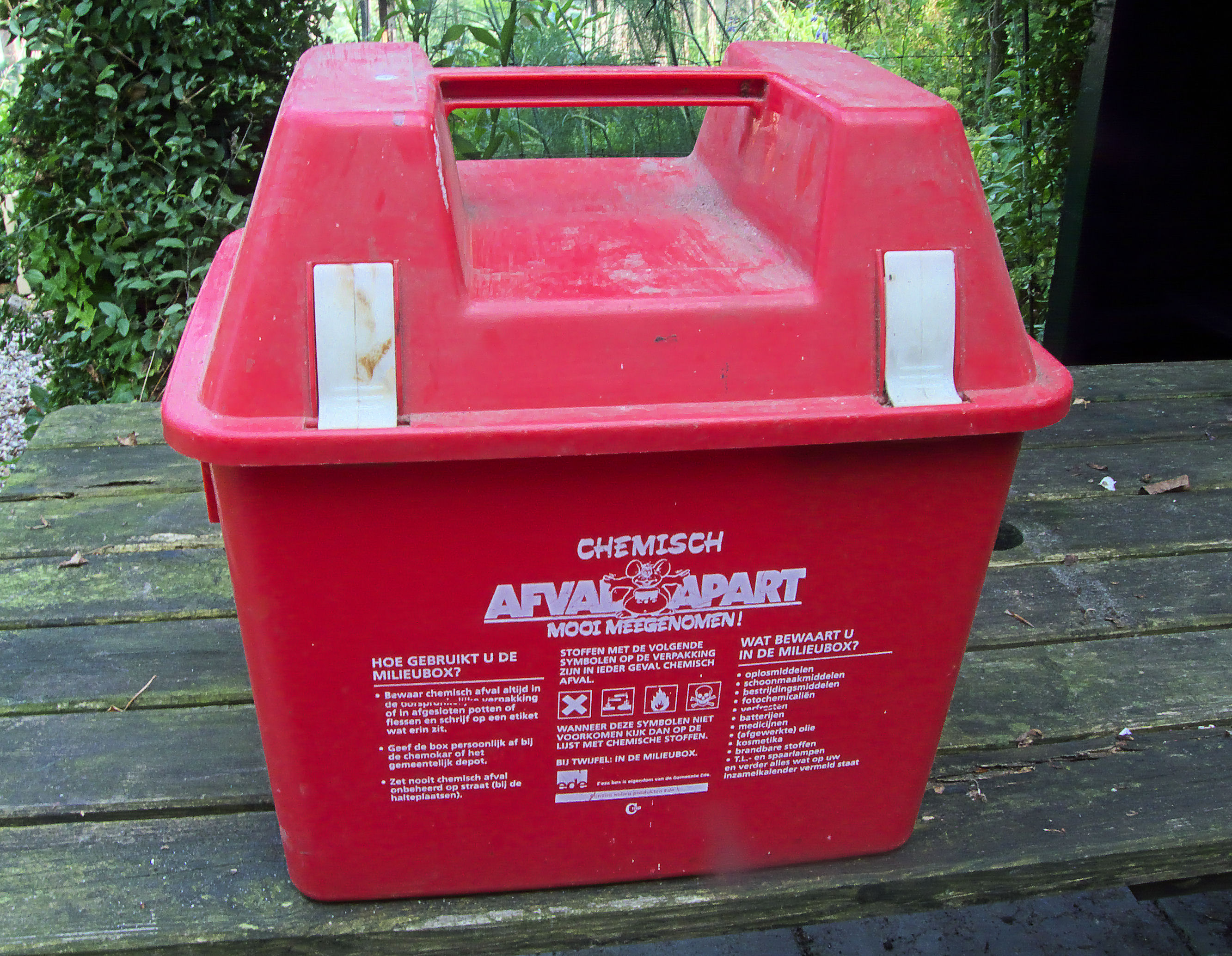 Chemical waste box